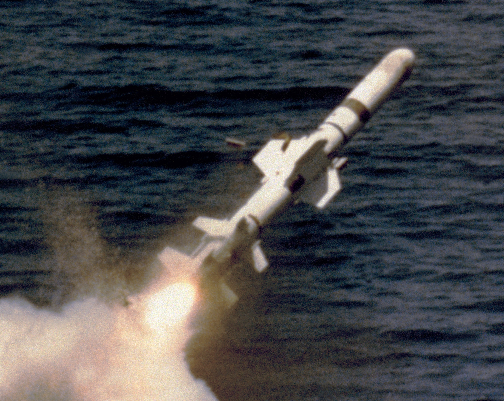 A view of an encapsulated UGM-84 surface-to-surface Harpoon missile leaving the capsule as it clears the surface of the water, after being launched from a submarine near the Pacific Missile Test Center, California. derivative work: Matrek